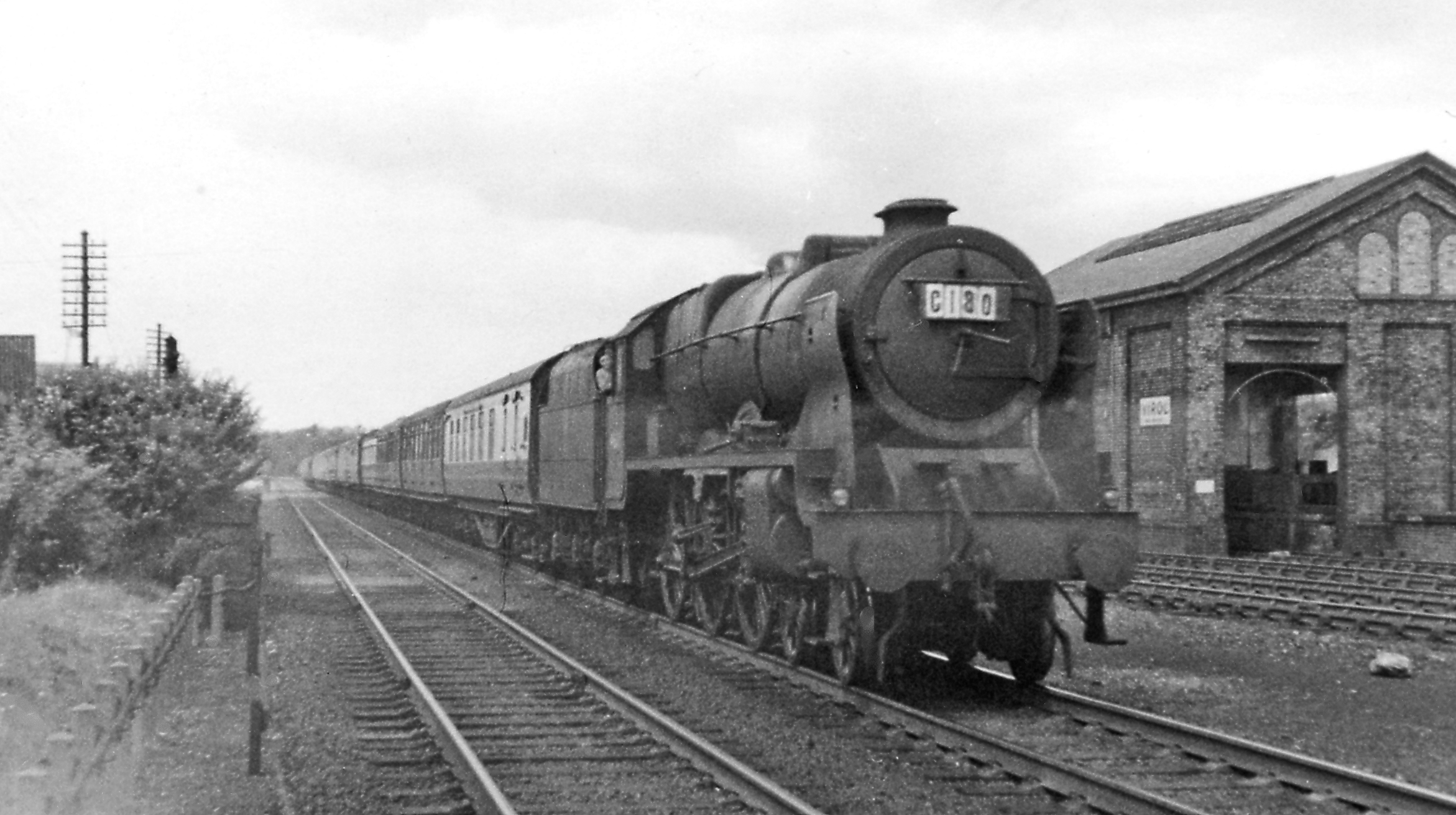 Blackpool - London express passing Kings Langley. View northward, towards Bletchley and the North: WCML. The 09.45 Blackpool Central - Euston is headed by Rebuilt 'Royal Scot' 7P 4-6-0 No. 46118 'Royal Welch Fusilier' (built 11/27, rebuilt 12/46, withdrawn 6/64).